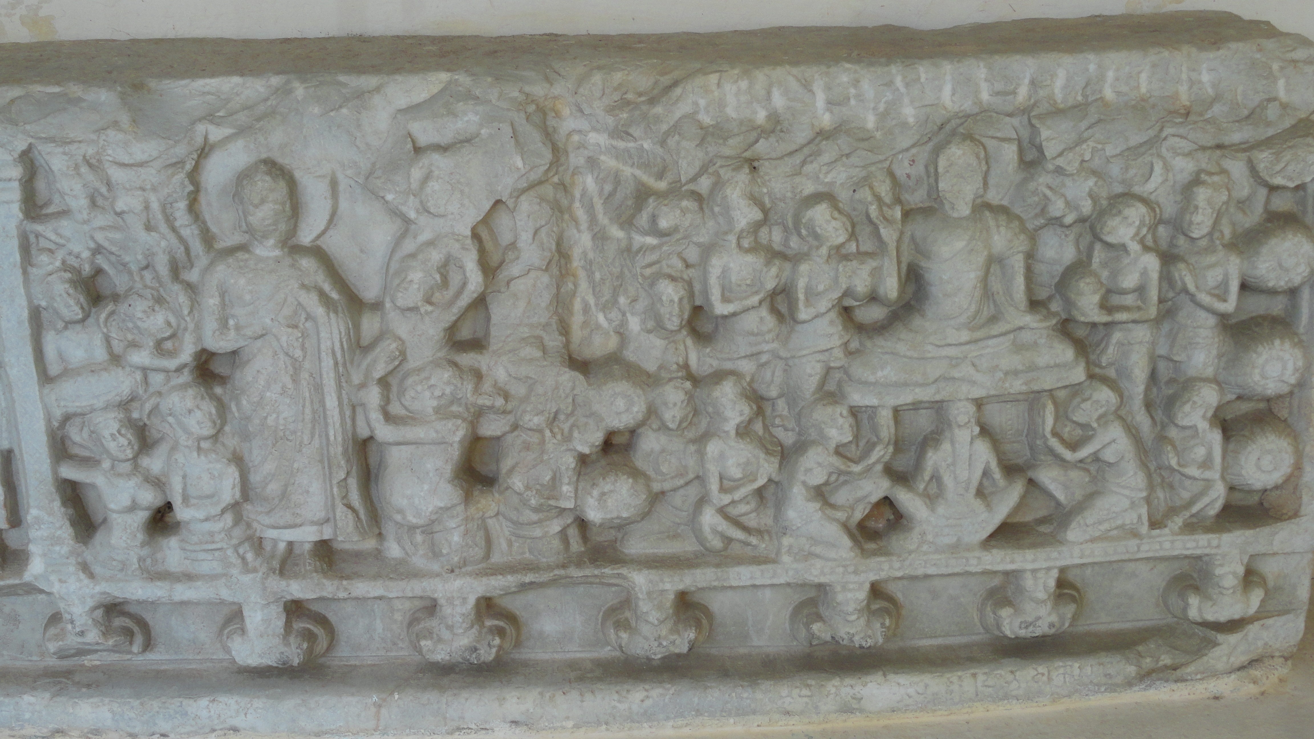 sculpture. amaravati A.P